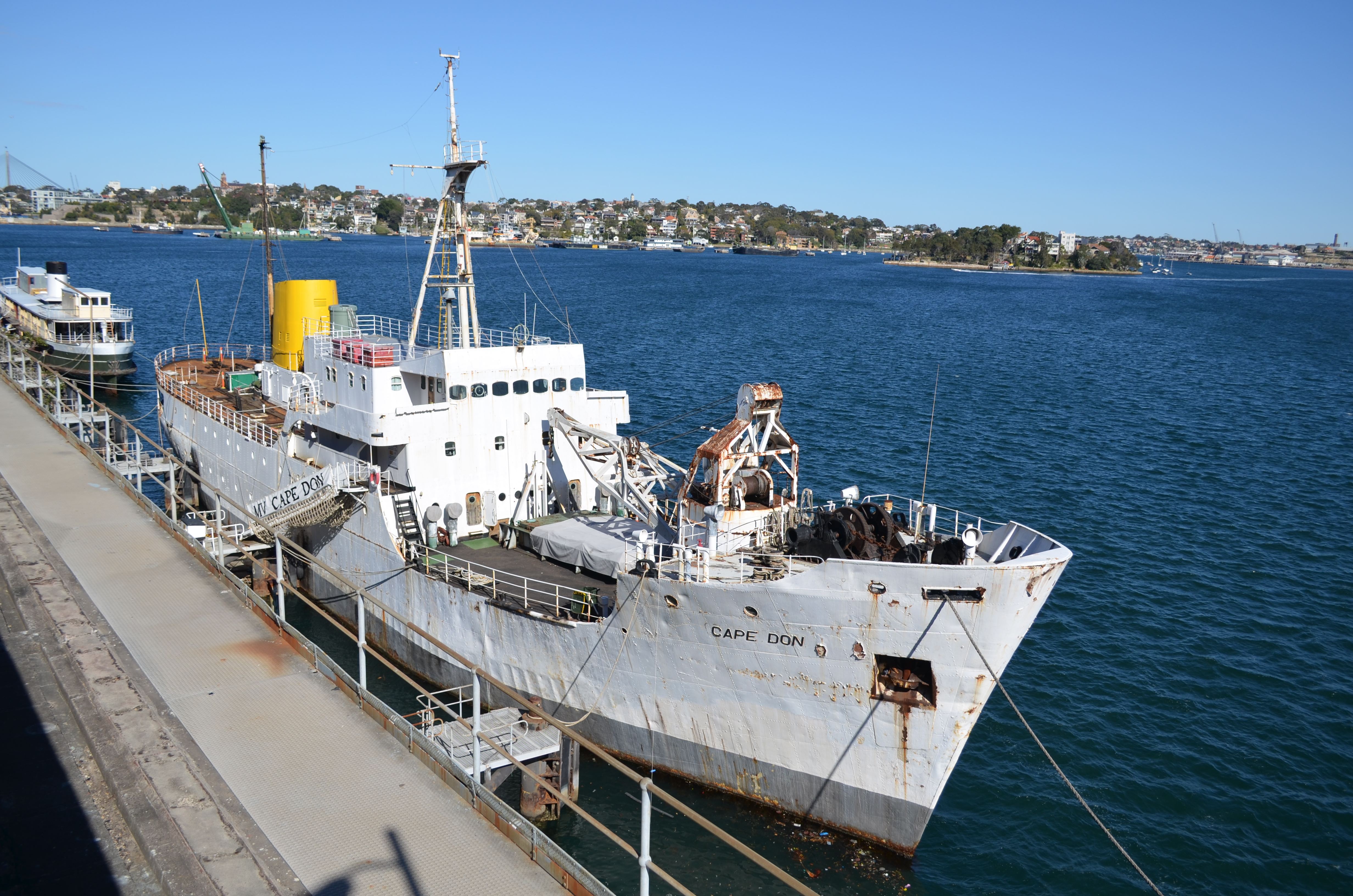 Former lighthouse tender MV Cape Don, moored in Balls Head Bay, Sydney, NSW while being refurbished by a volunteer group